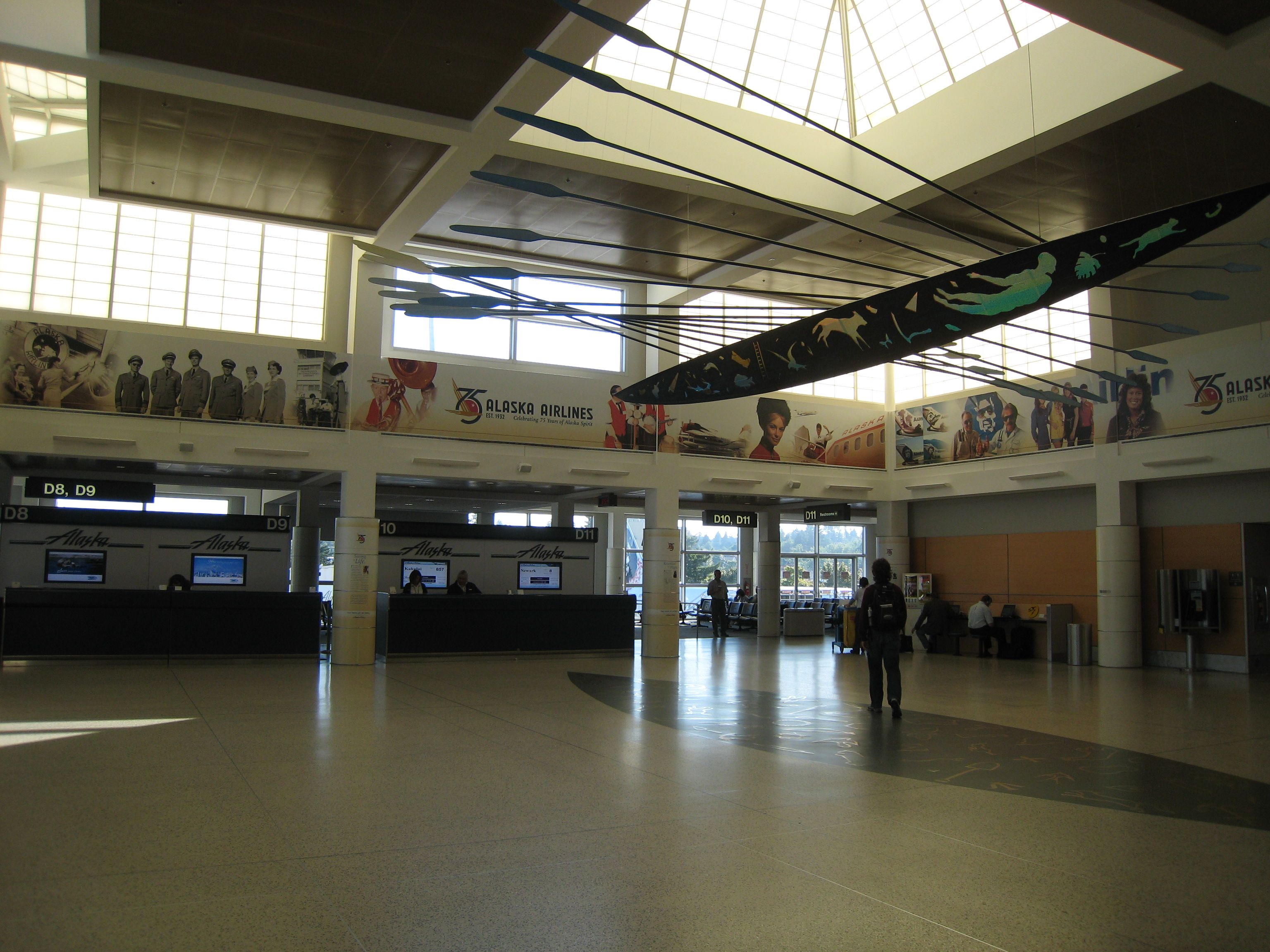 Seattle Tacoma (SeaTac) International Airport, Terminal D interior